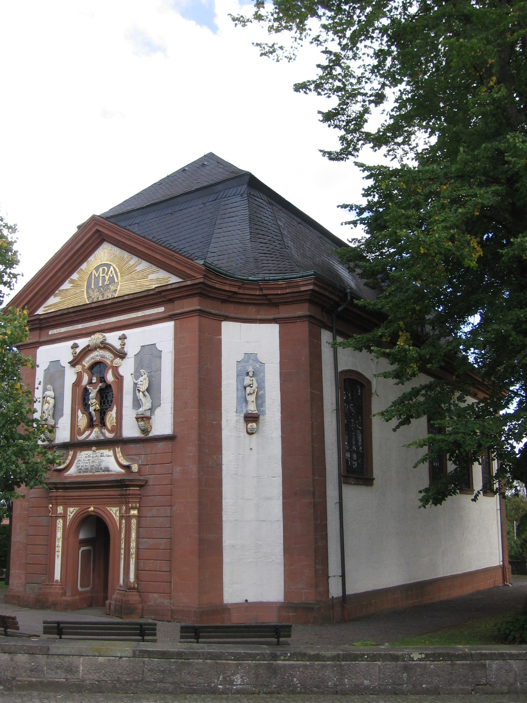 Church in Kleinenberg, Westphalia, Germany This is a photograph of an architectural monument.